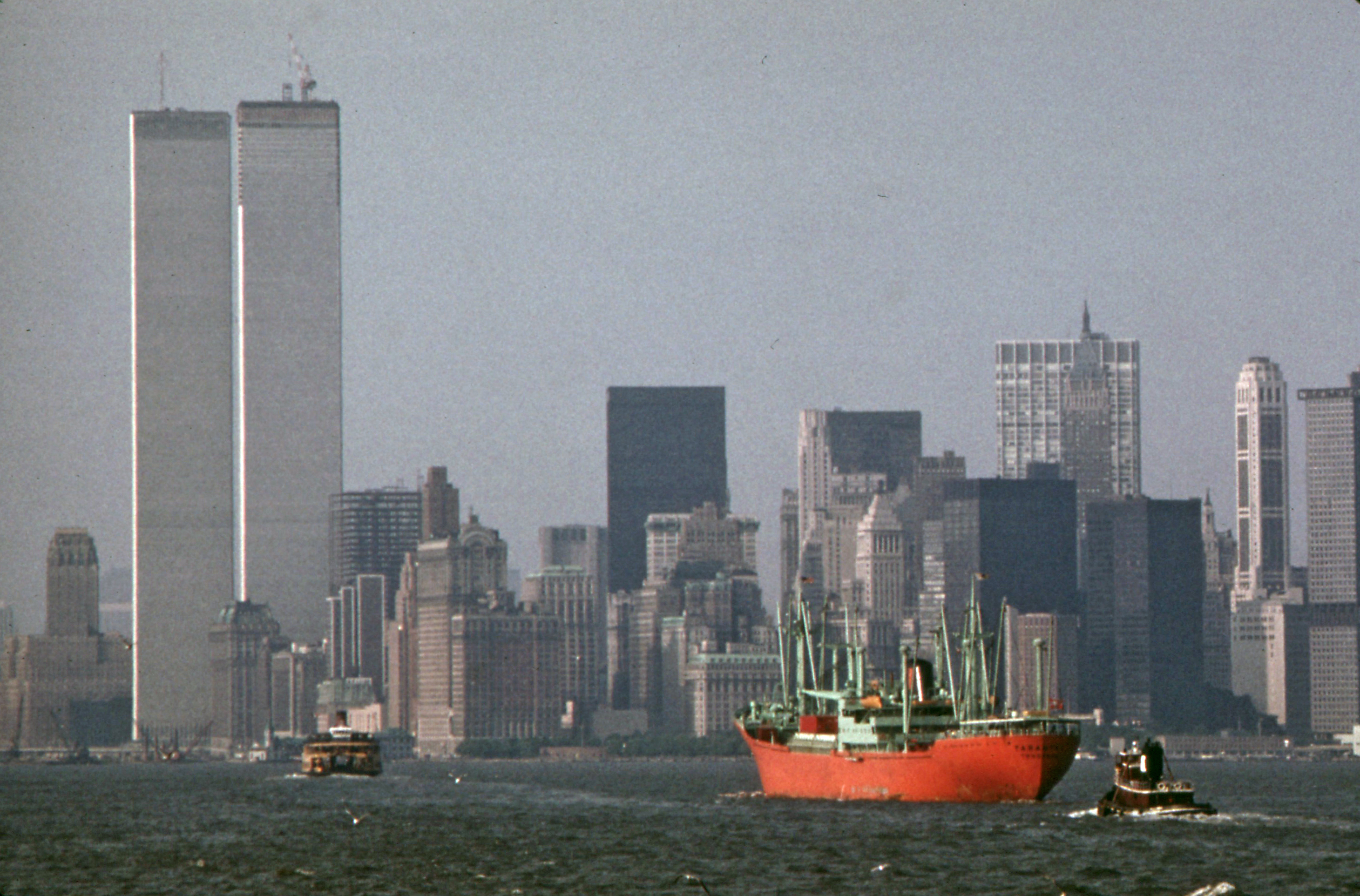 Derived from File:WORLD TRADE CENTER (LEFT) AND LOWER HUDSON RIVER SHIPPING SEEN FROM THE STATEN ISLAND FERRY - NARA - 549892.jpg, the red Cargo vessel in the foreground ist the norwegian "Tarantel", IMO 5352666